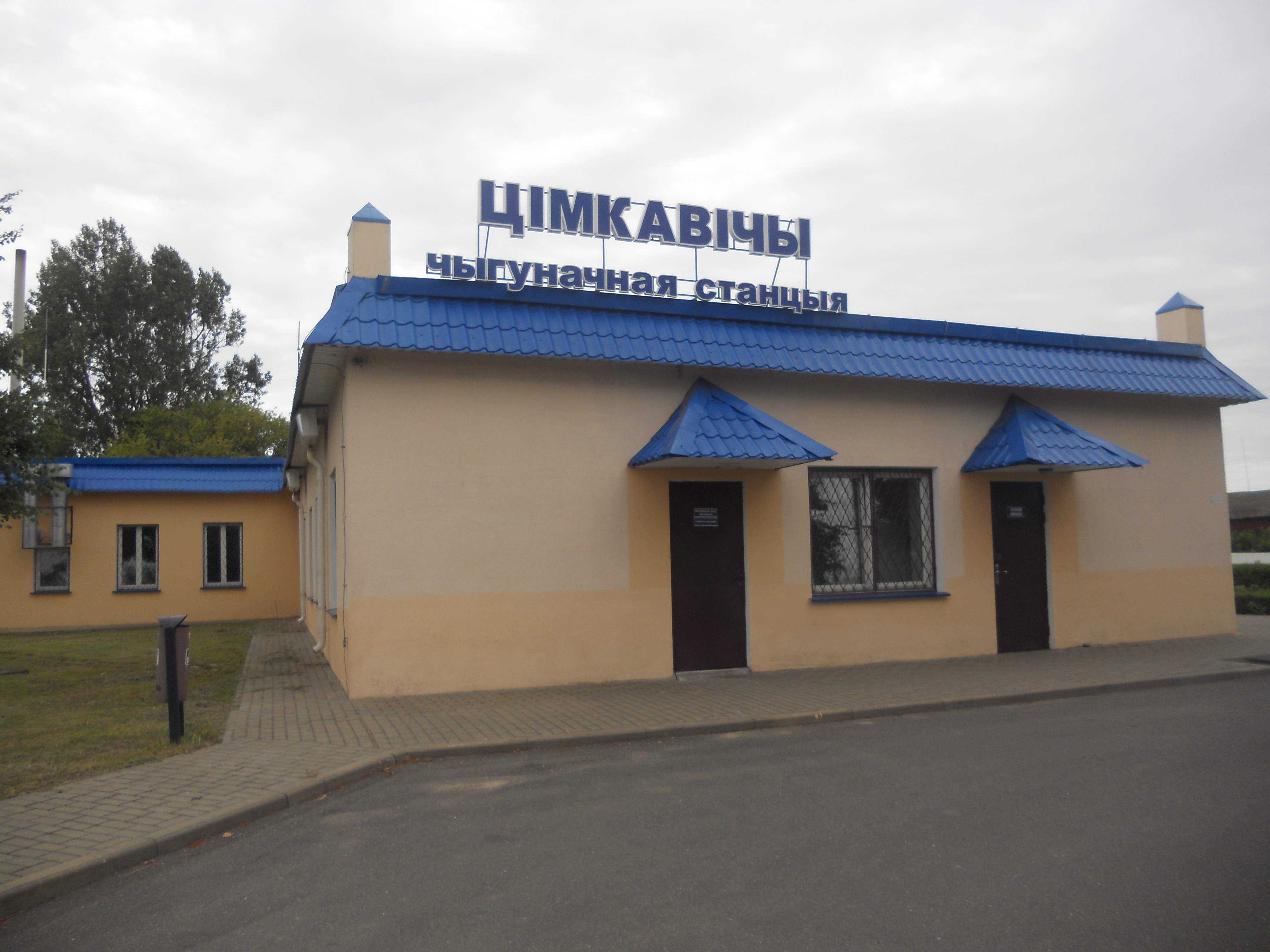 Railway station Tsimkovichi